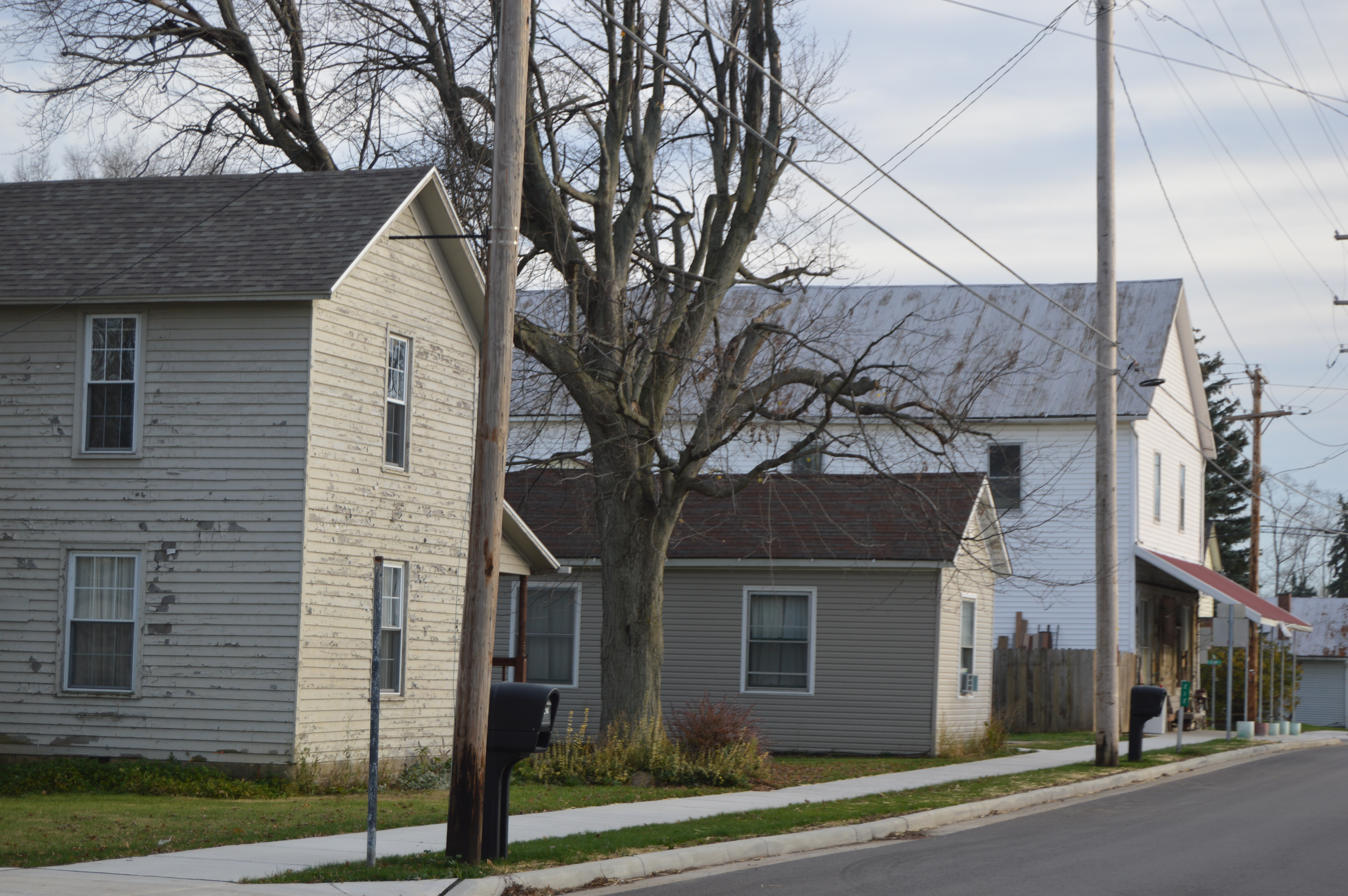 Buildings on the eastern side of Main Street (U.S. Route 127) just north of the Elm Street intersection in Castine, Ohio, United States.